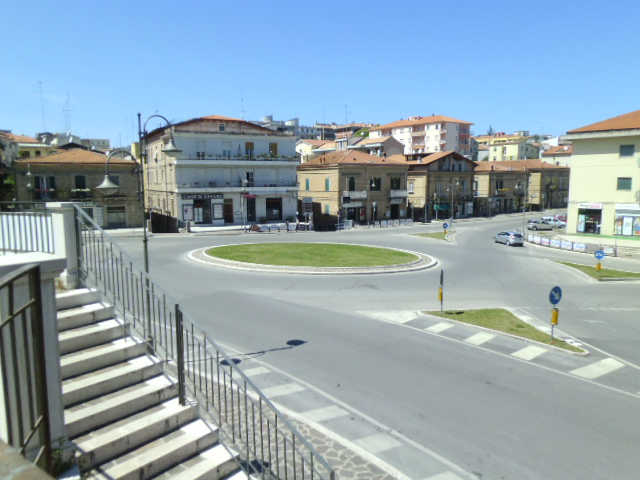 VASTO CITY